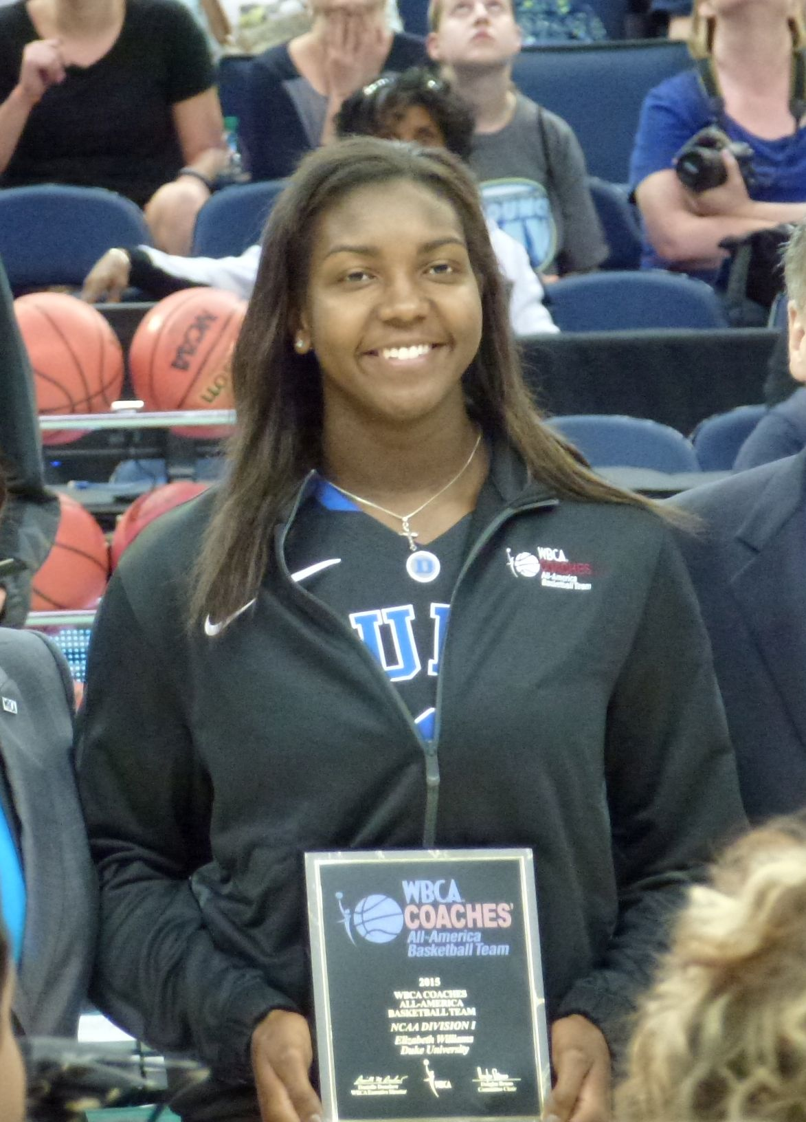 Elizabeth Williams at the 2015 WBCA convention, being named to the 2015 WBCA All-America team